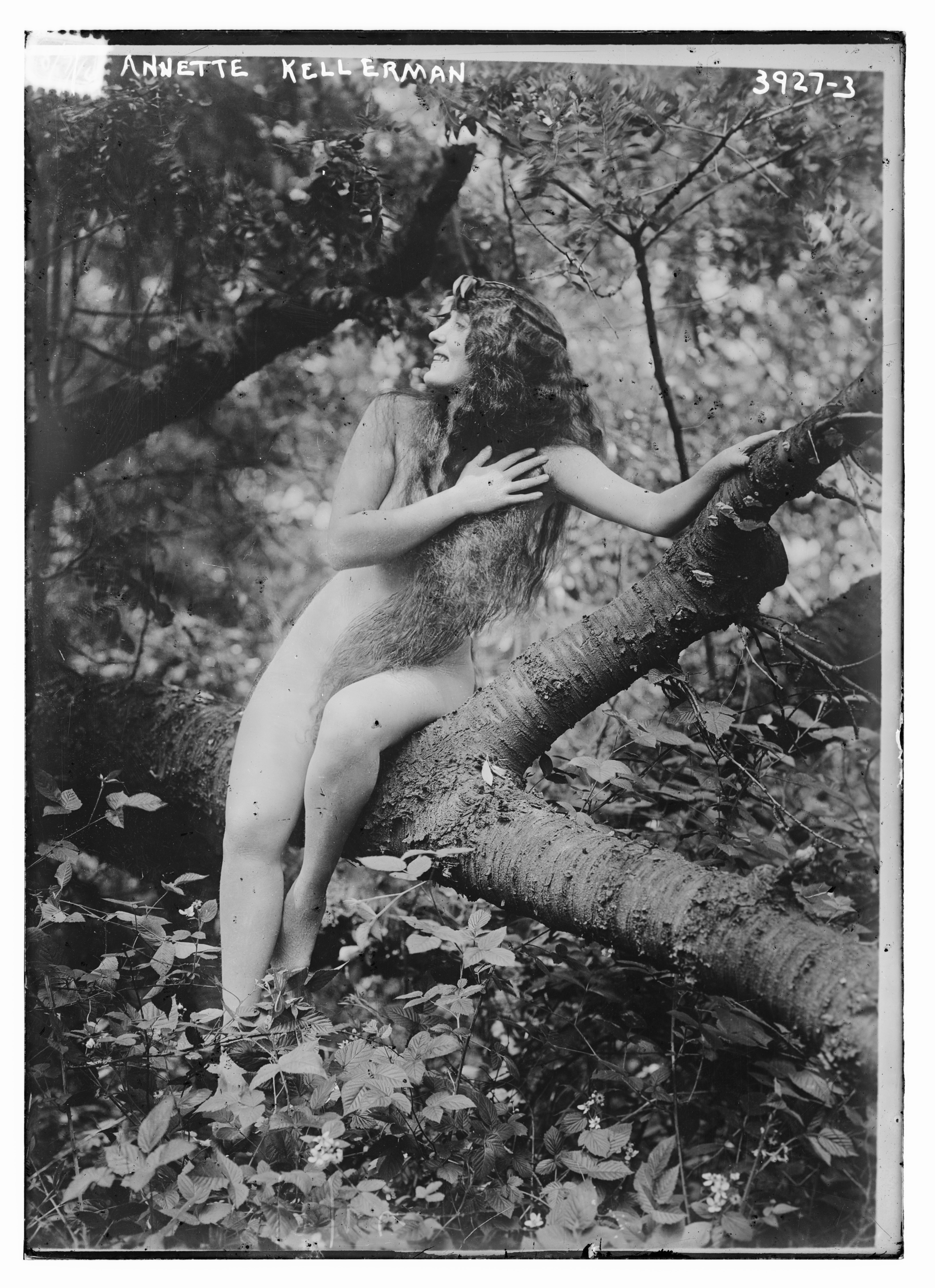 Title: Annette Kellerman Abstract/medium: 1 negative : glass ; 5 x 7 in. or smaller.